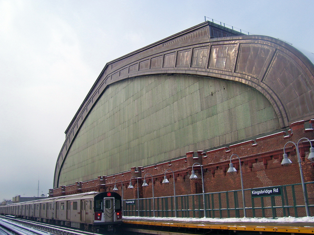 Kingsbridge Armory from Kingsbridge Road station on 4 subway line